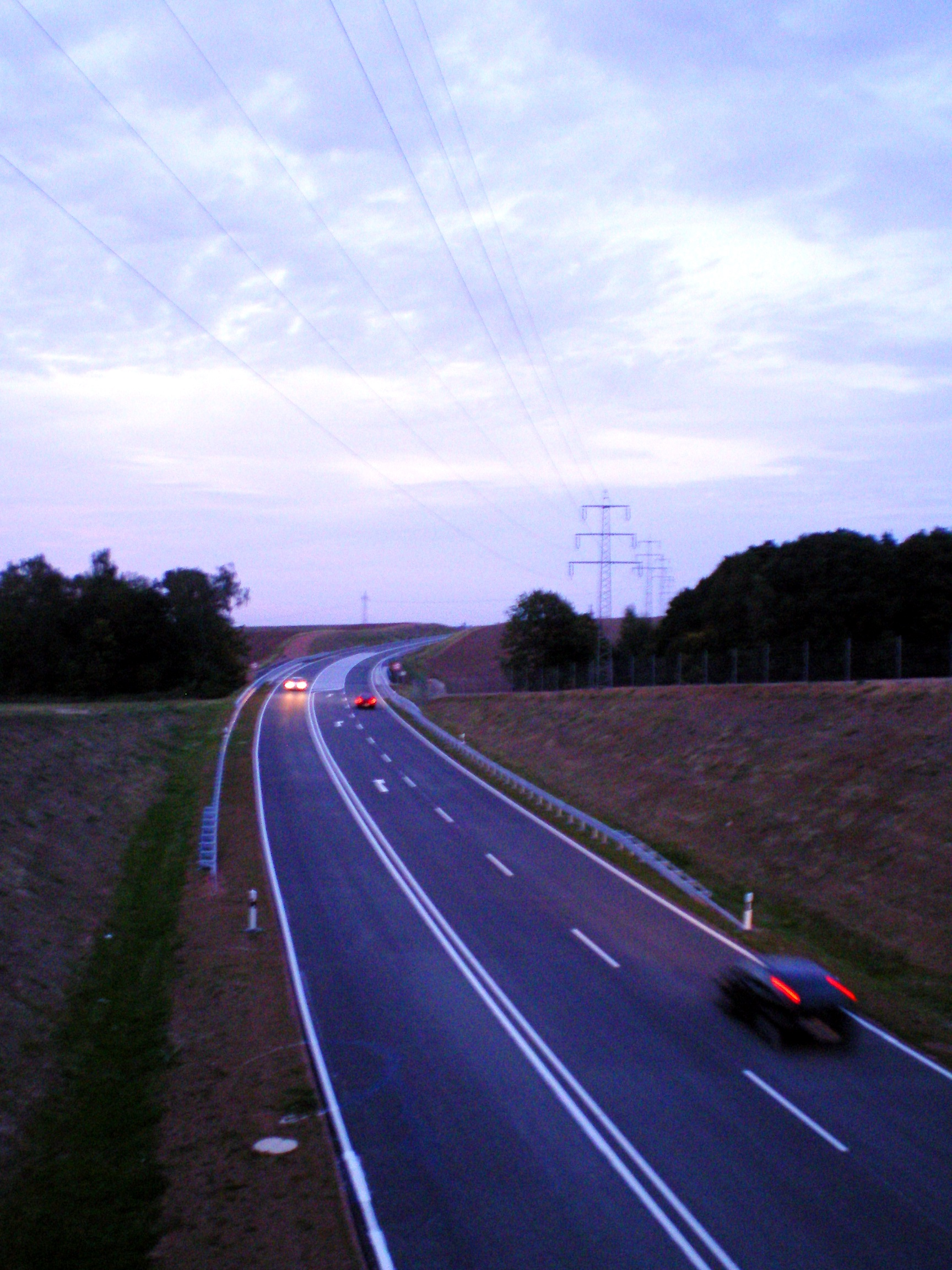 Ring road of federal highway no 93 (Bundesstraße 93) near Gößnitz/Thuringia in district of Altenburger Land